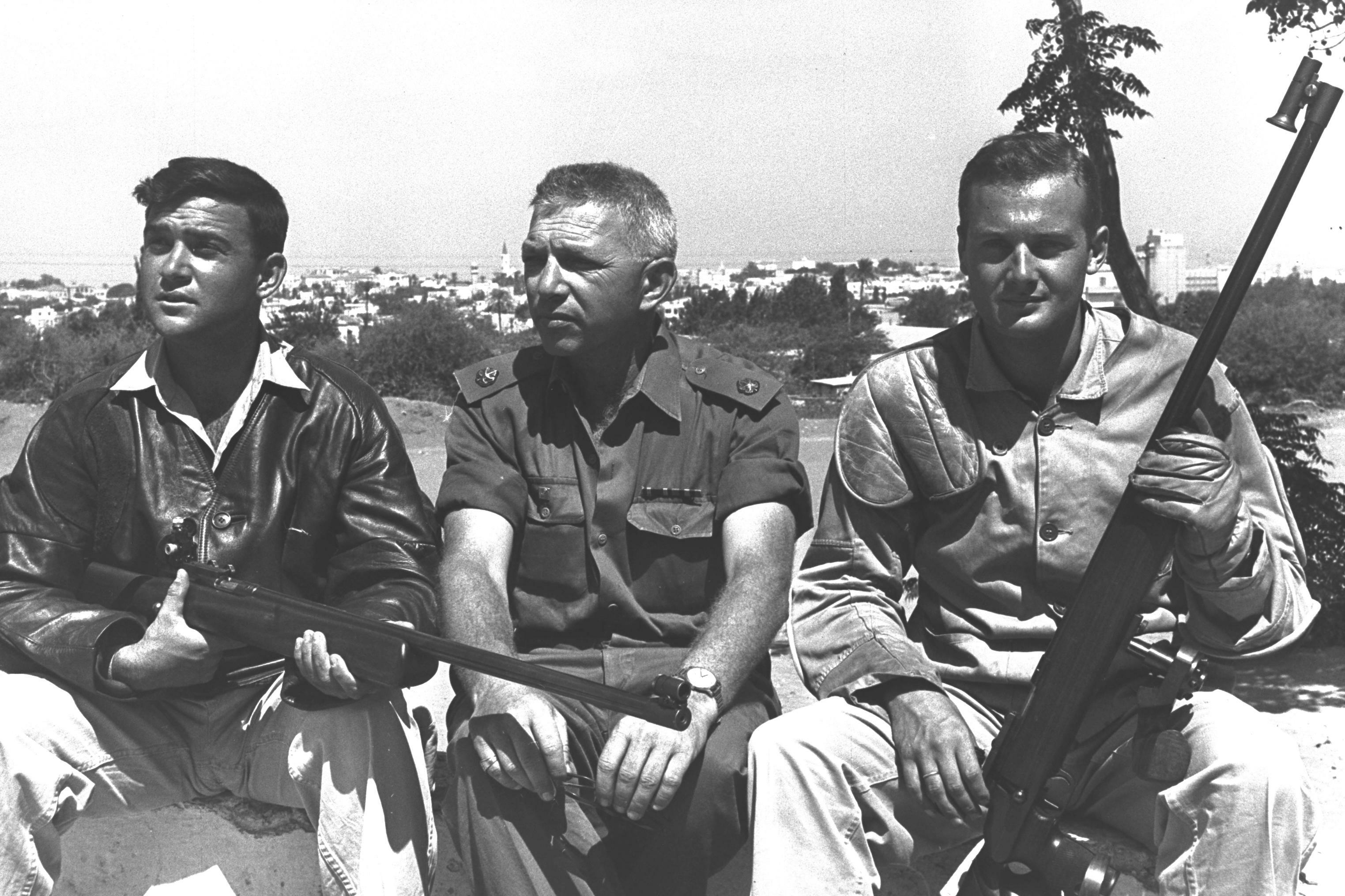 Israel marksmanship team to the olympic and their trainer. Left to right: Hanan Crystal, trainer Izzy Gilam and Raffi Peles.